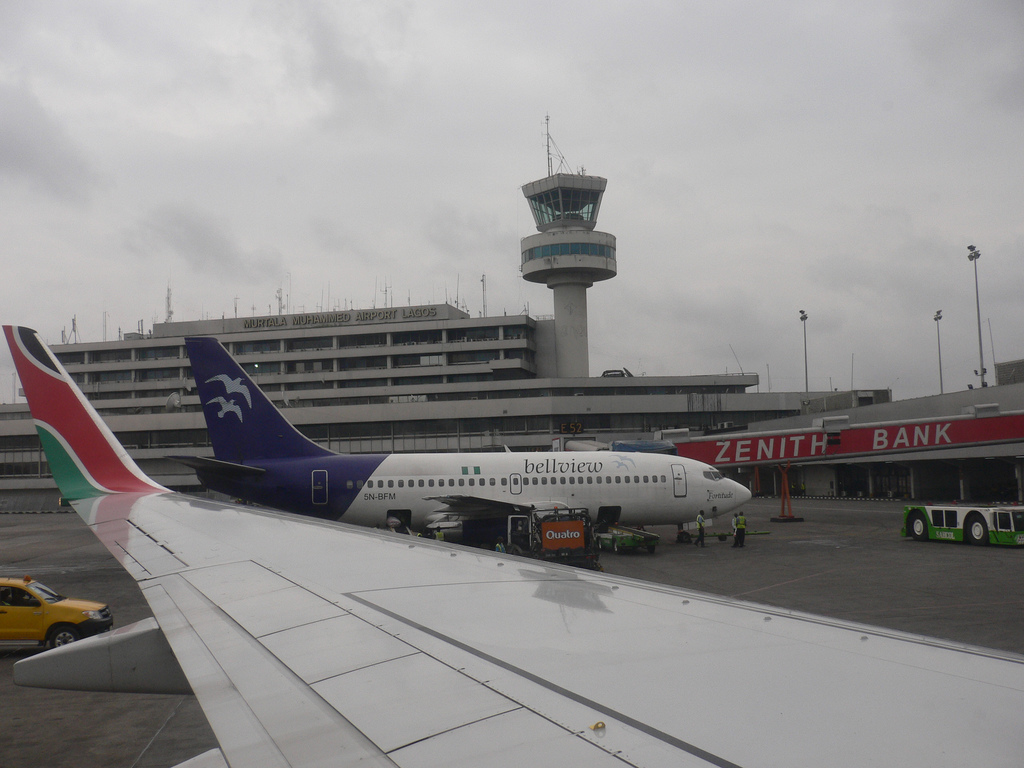 Aircraft of the Bellview Airlines at Murtala Muhammed International Airport, Lagos, Nigeria